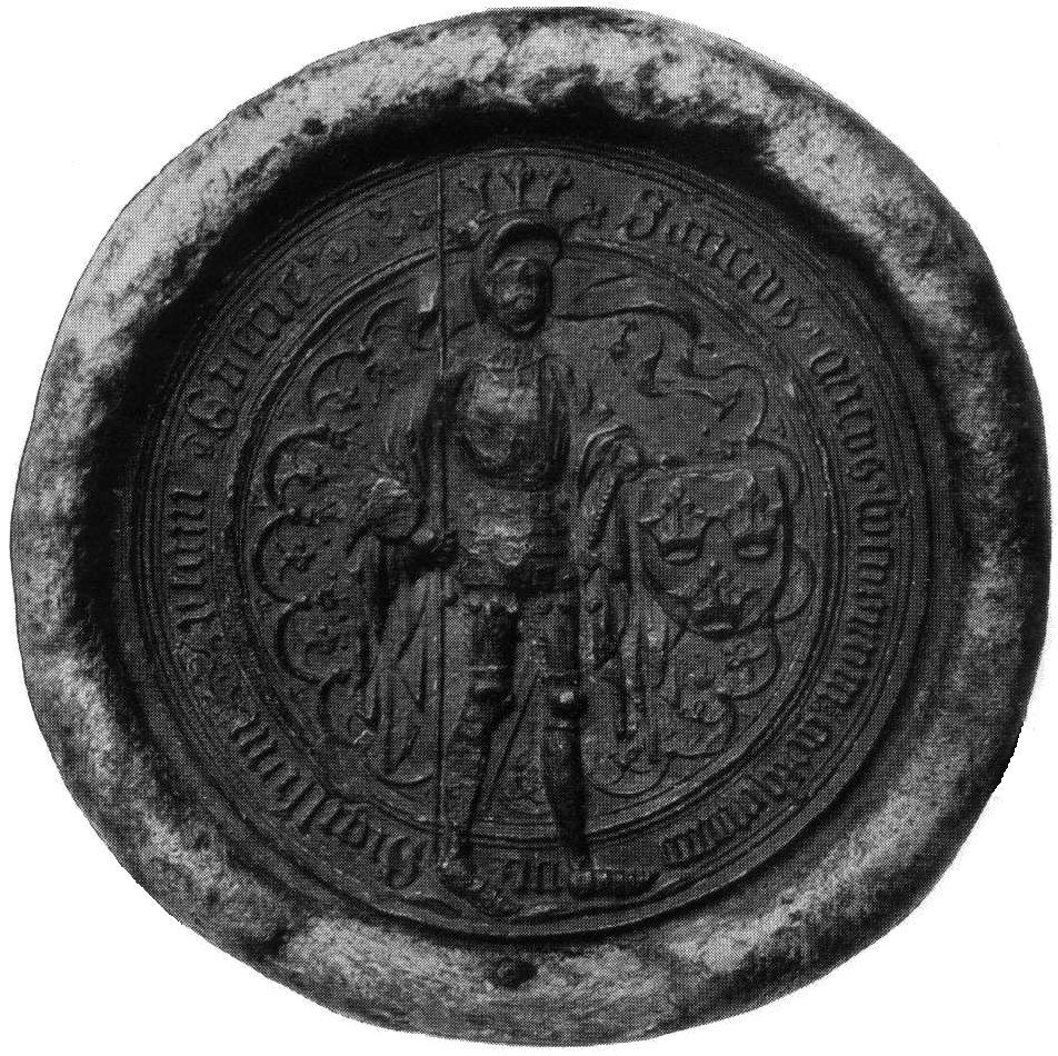 The seal of Sweden from a parchment letter from 1455